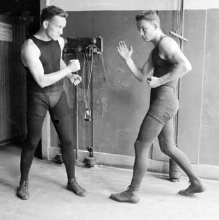 "Informal full-length portrait of pugilists Tommy Gibbons and Mike Gibbons facing one another, standing in boxing stances in front of a dark-colored wall in a room in Chicago, Illinois."